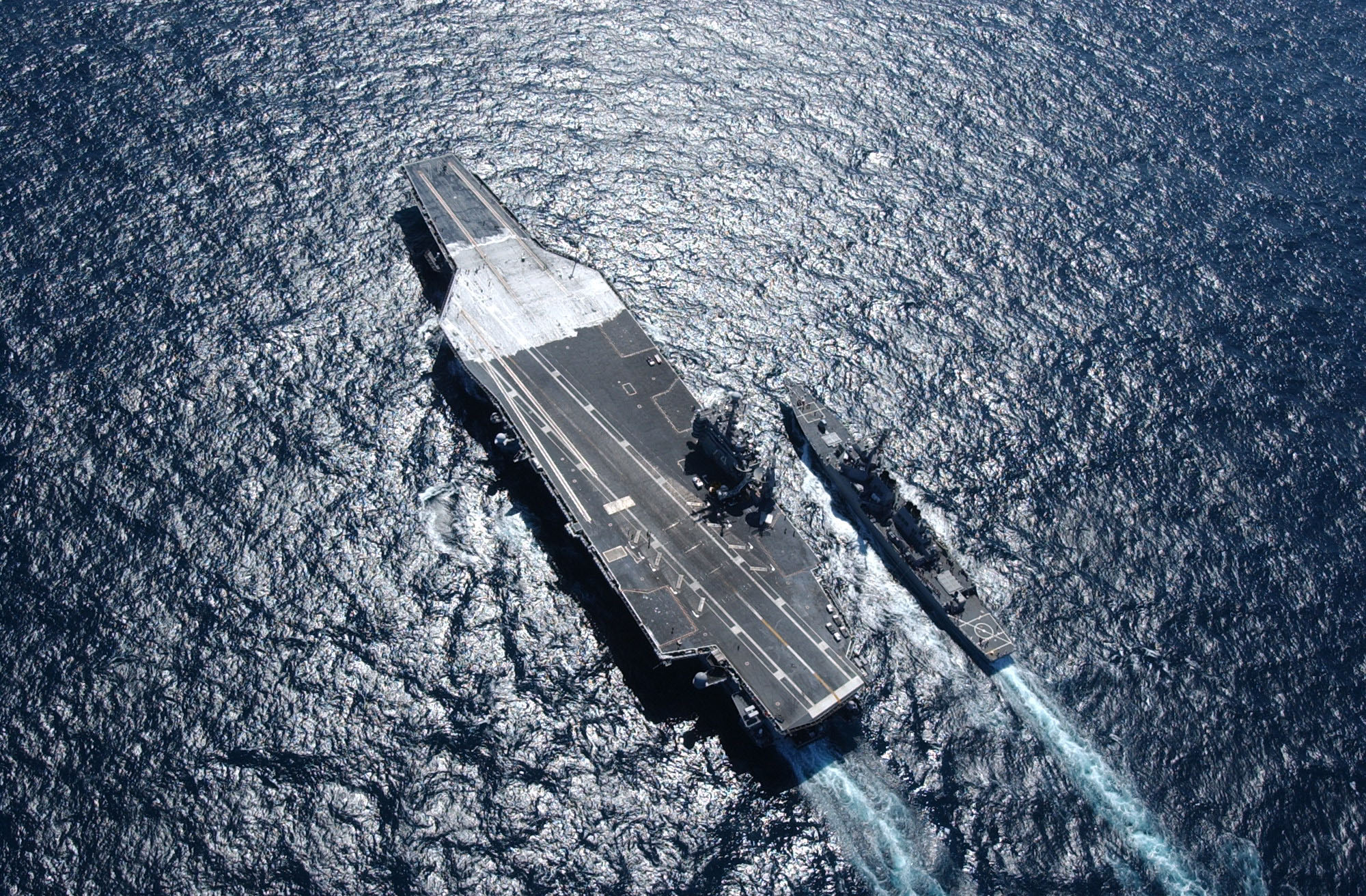 Pacific Ocean (Apr. 3, 2003) – Guided missile destroyer USS John Paul Jones (DDG 53) pulls along side aircraft carrier USS John C. Stennis (CVN 74) during an underway replenishment at sea (RAS). Stennis is conducting propulsion, navigation and damage control training exercises in the southern California operating area. U.S. Navy photo by Photographer's Mate 3rd Class Joshua Word. (RELEASED)